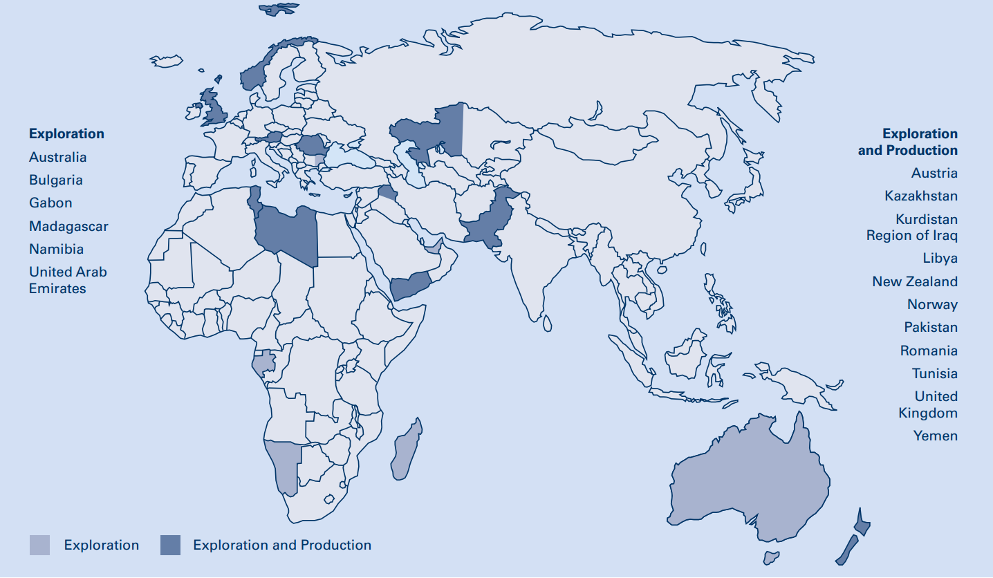 OMV Upstream Portfolio 2015